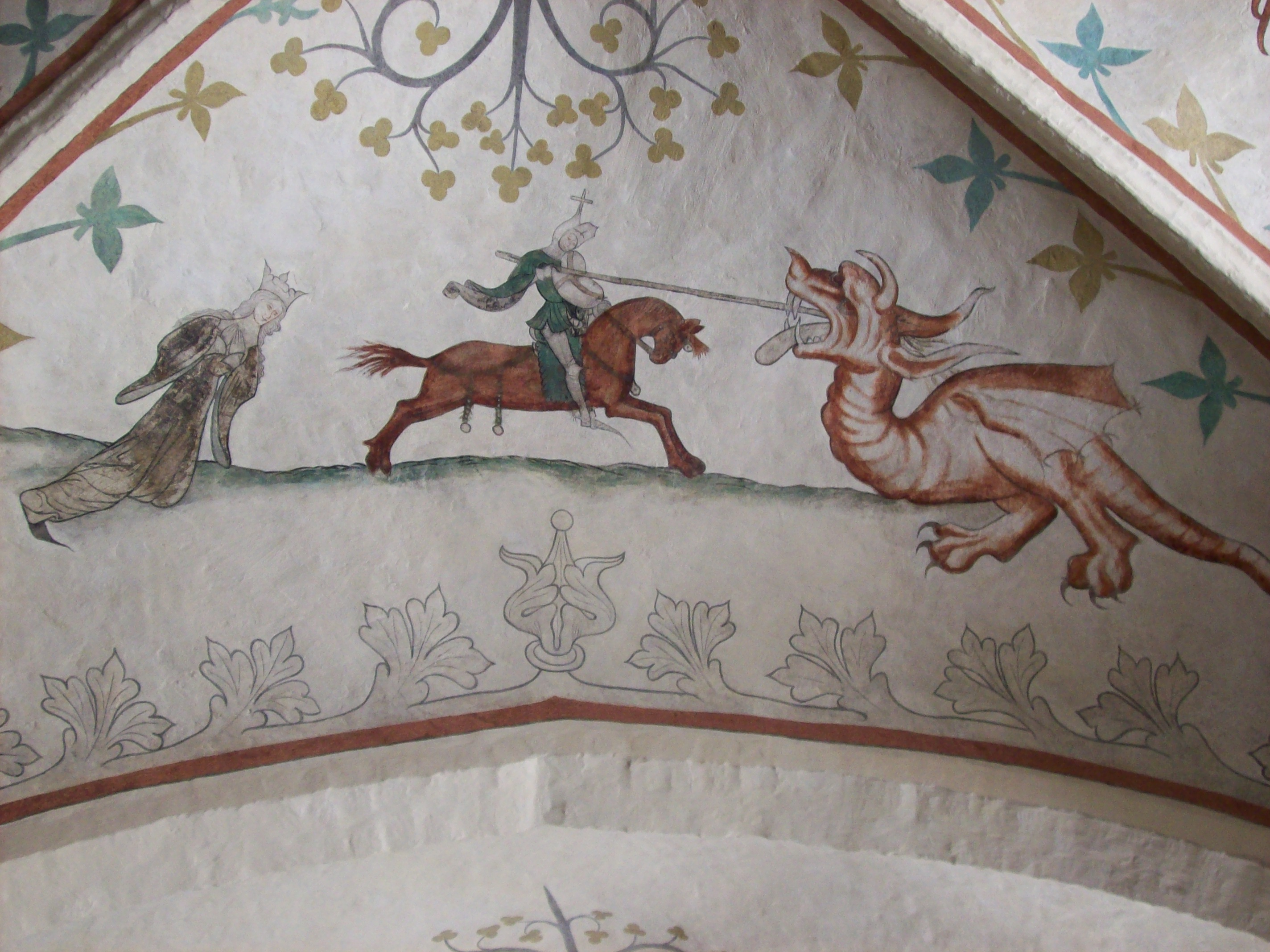 Fresco at Højby, Odsherred church